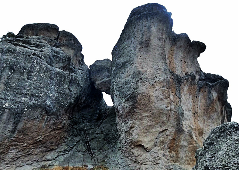 Karadzhov Stone Rodopa BG